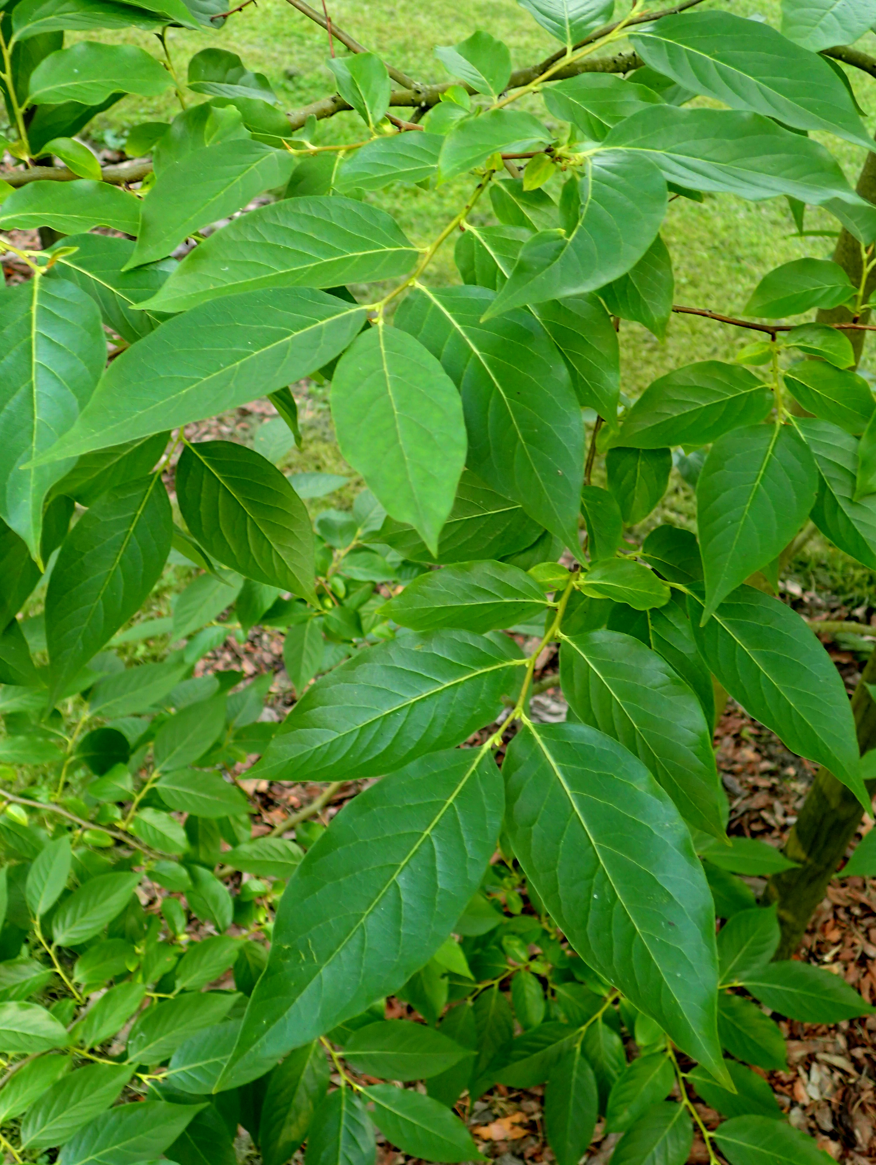 Diospyros lotus at Botanical Garden in Zielona Góra